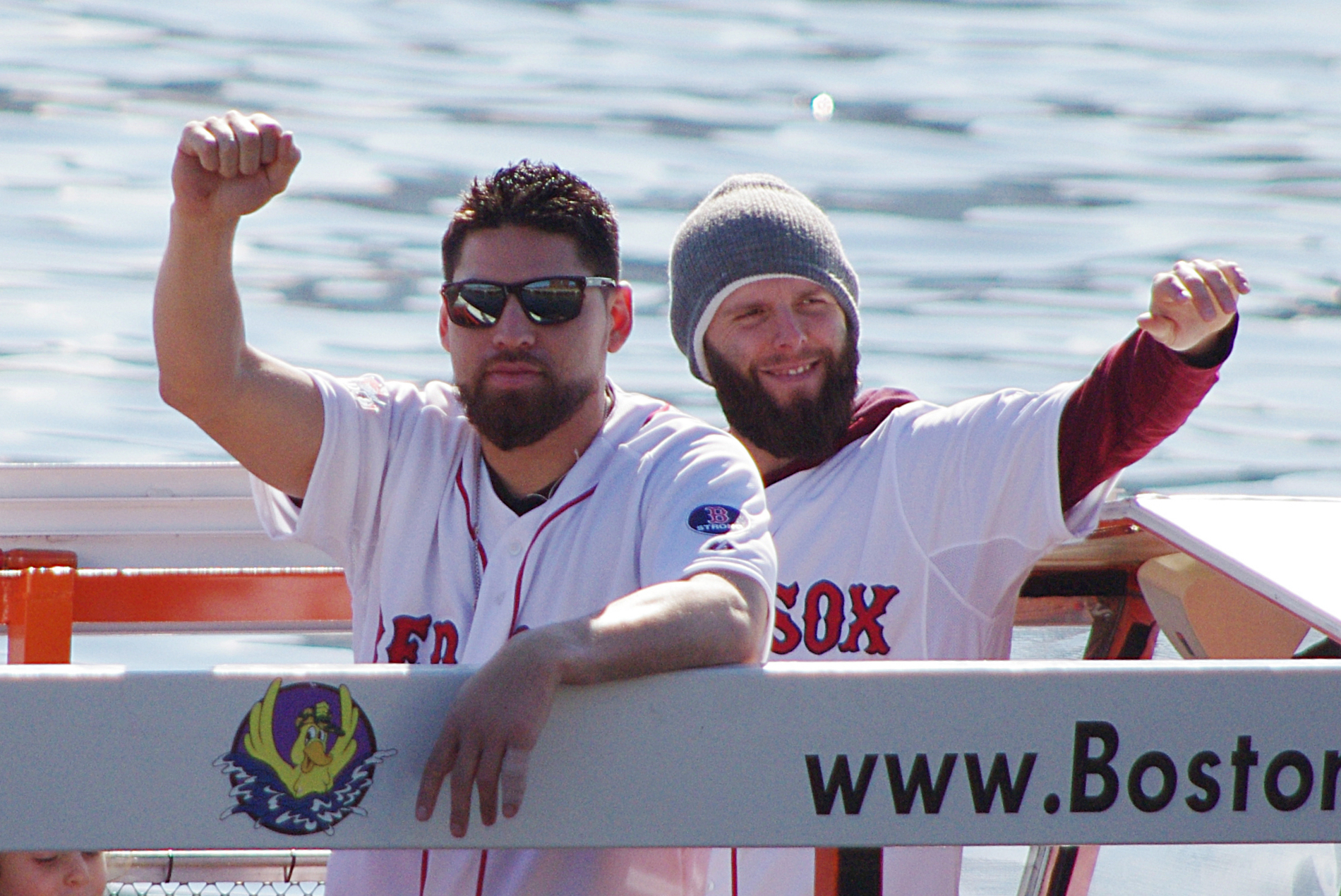 Jacoby Ellsbury (left) and Dustin Pedroia